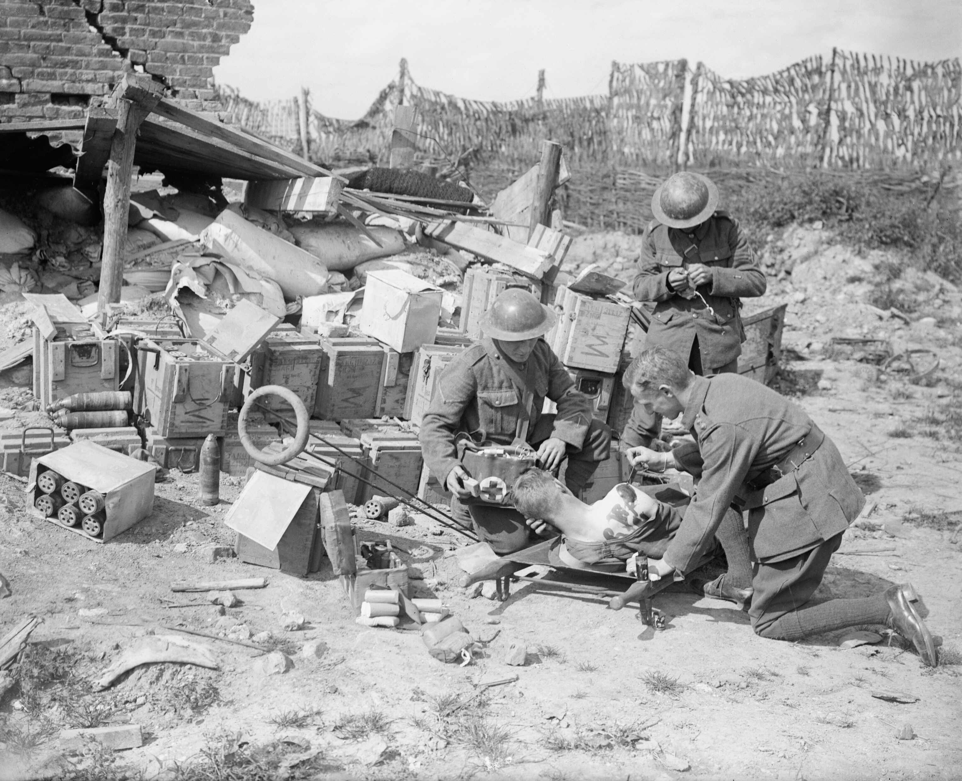 A doctor tending a wounded soldier at a Regimental Aid Post set up in a captured German ammunition dump at Oosttaverne, near Ypres, August 1917. A doctor tends to a shoulder wound at a Regimental Aid Post set up in a captured German ammunition dump at Oosttaverne, near Ypres, August 1917.